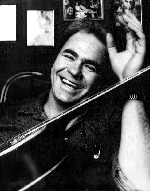 Publicity photo of Hoyt Axton for his show at Ebbets Field.